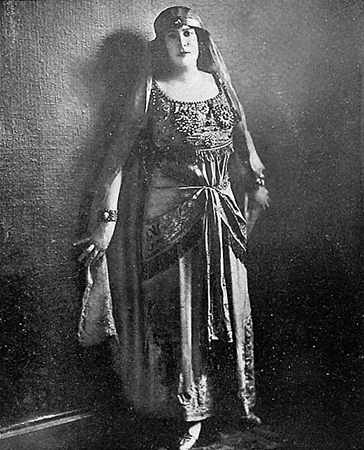 Picture of English-born American soprano Marie Rappold. According to [1], Rappold "made her opera debut at the Metropolitan Opera in 1905, where she stayed until 1920." The uncropped version of this image [2] reads: "At present a leading member of the Metropolitan Opera Company." Therefore, the image must be properly licensed as public domain (U.S. print first published before 1923) – as described below.